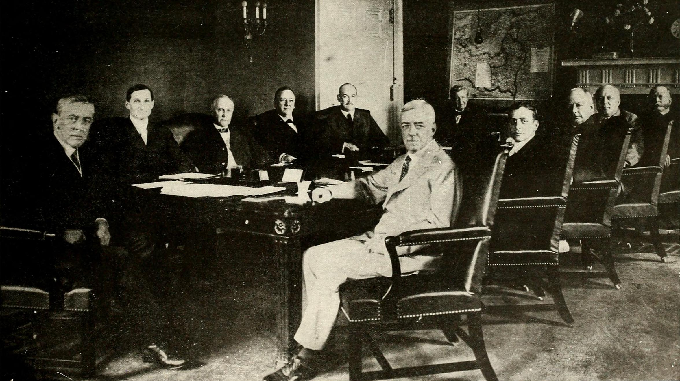 President Woodrow Wilson and his war cabinet.